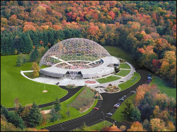 Russell Township-ASM Headquarters & Geodesic Dome (OHPTC)